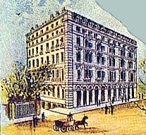 "Pera Palace" hotel in Istanbul